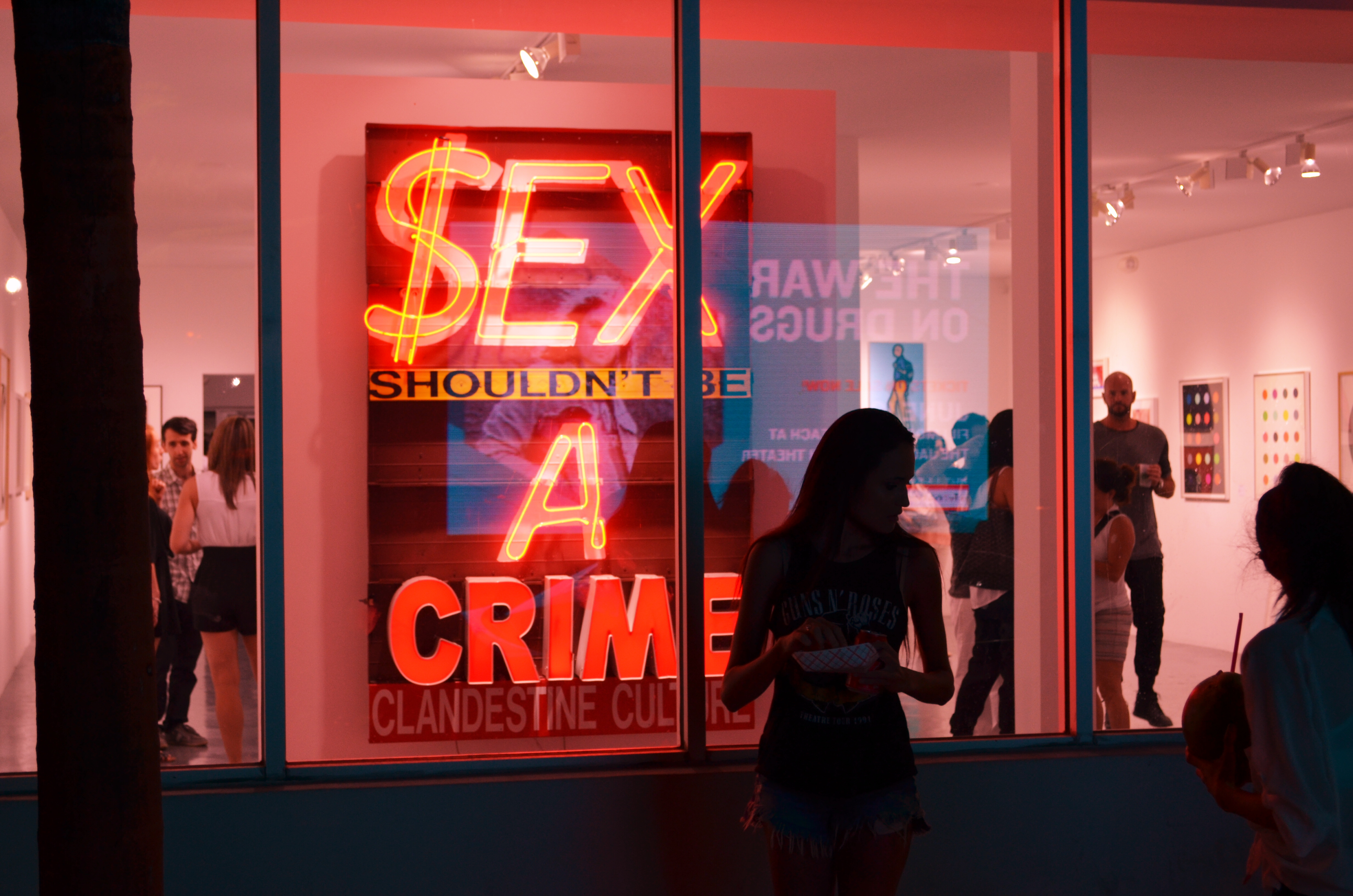 image of a gallery at night wit artworks by clandestine culture